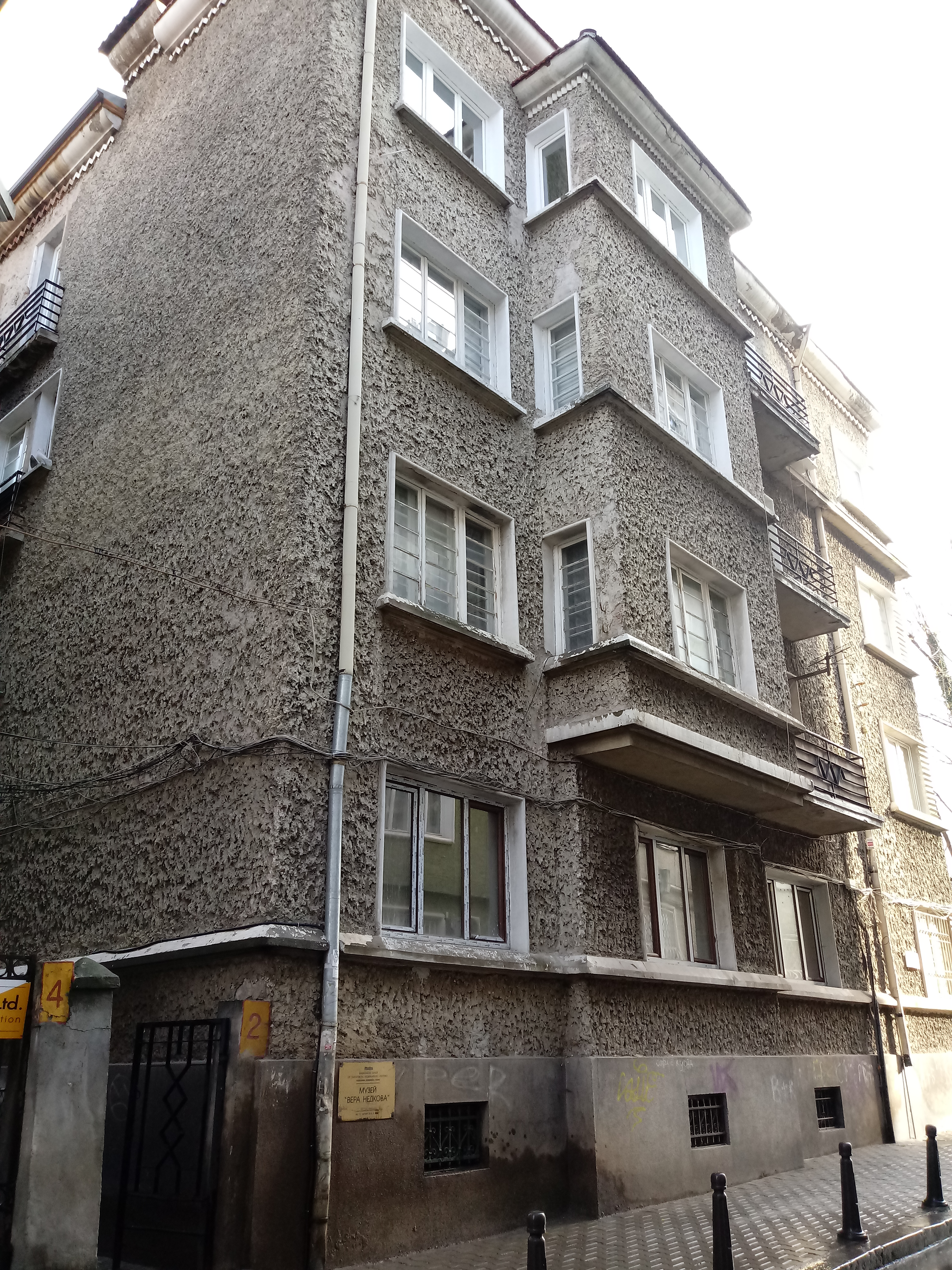 Vera Nedkova museum with memorial plaque, 2 "11 August" Str., Sofia